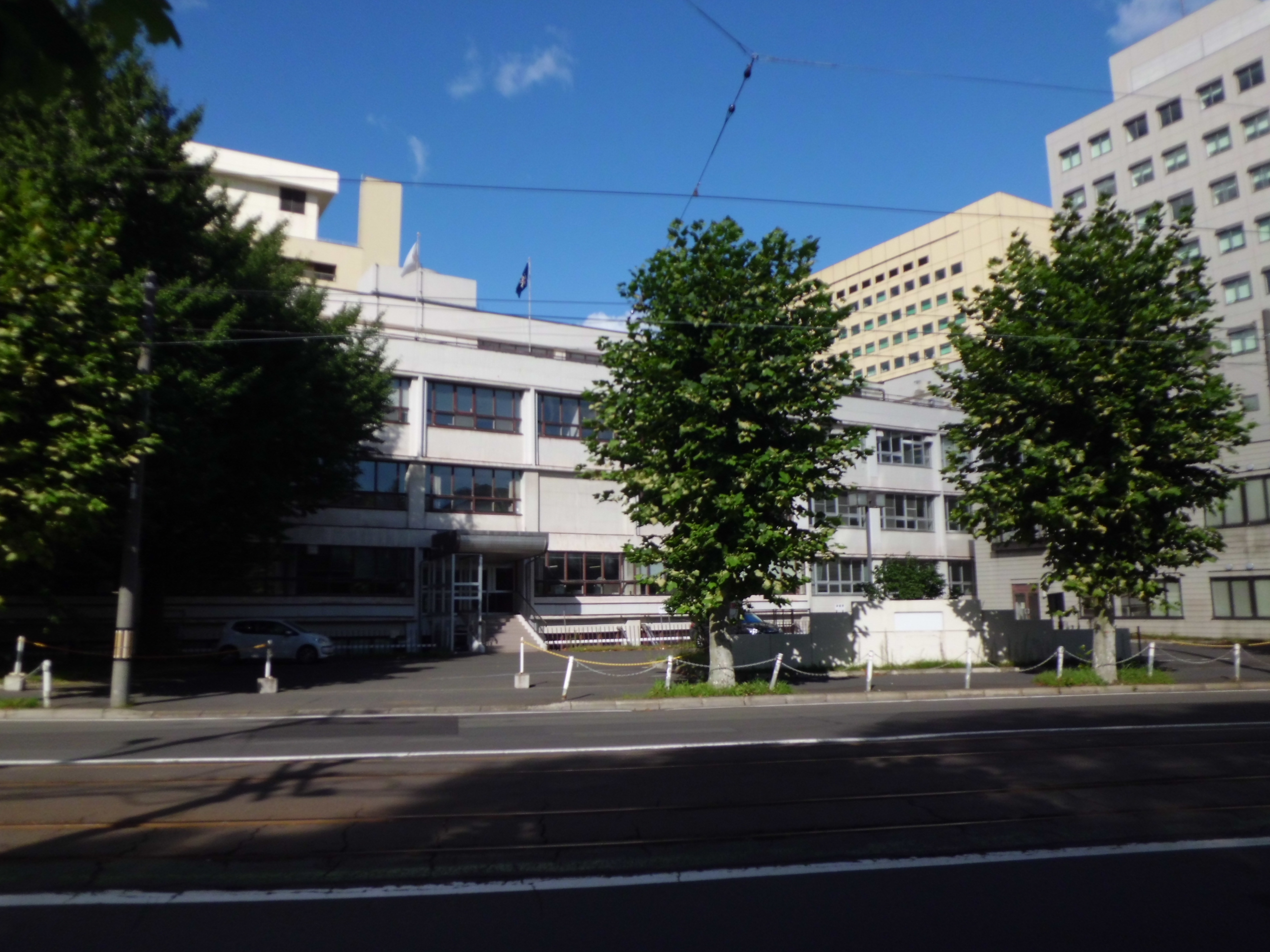 Hokkaido Prefectural School of Hygiene